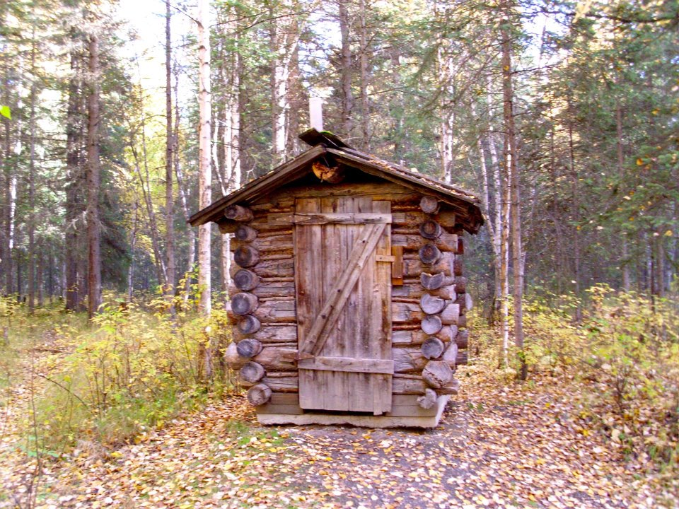 hand made log outhouse, Near North Fork of Chena River, Chena River State Recreation Area, Alaska